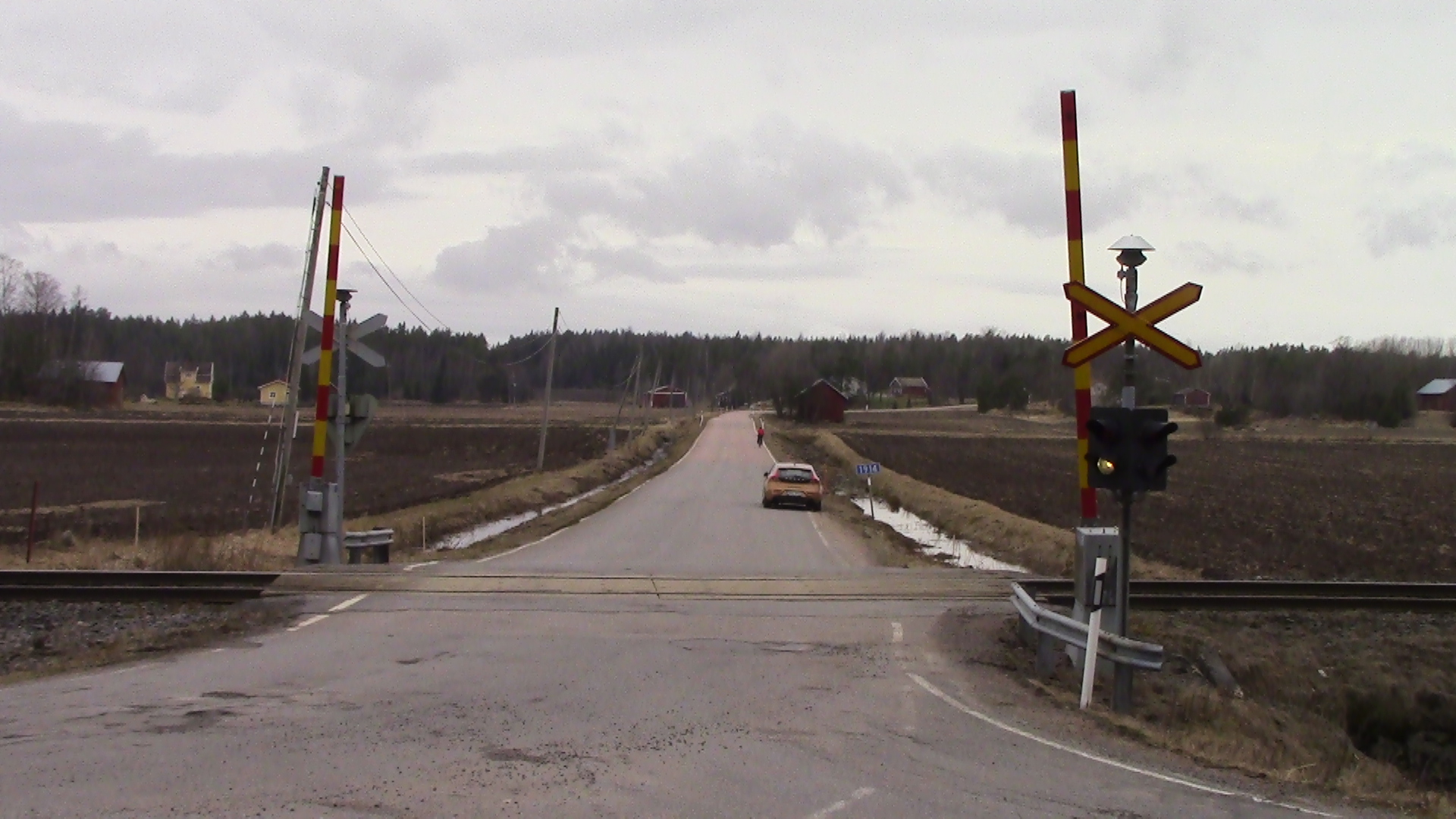 Finnish connecting road 1914 at Mahala level crossing in Nousiainen. The road runs from Nousiainen to Mietoinen.